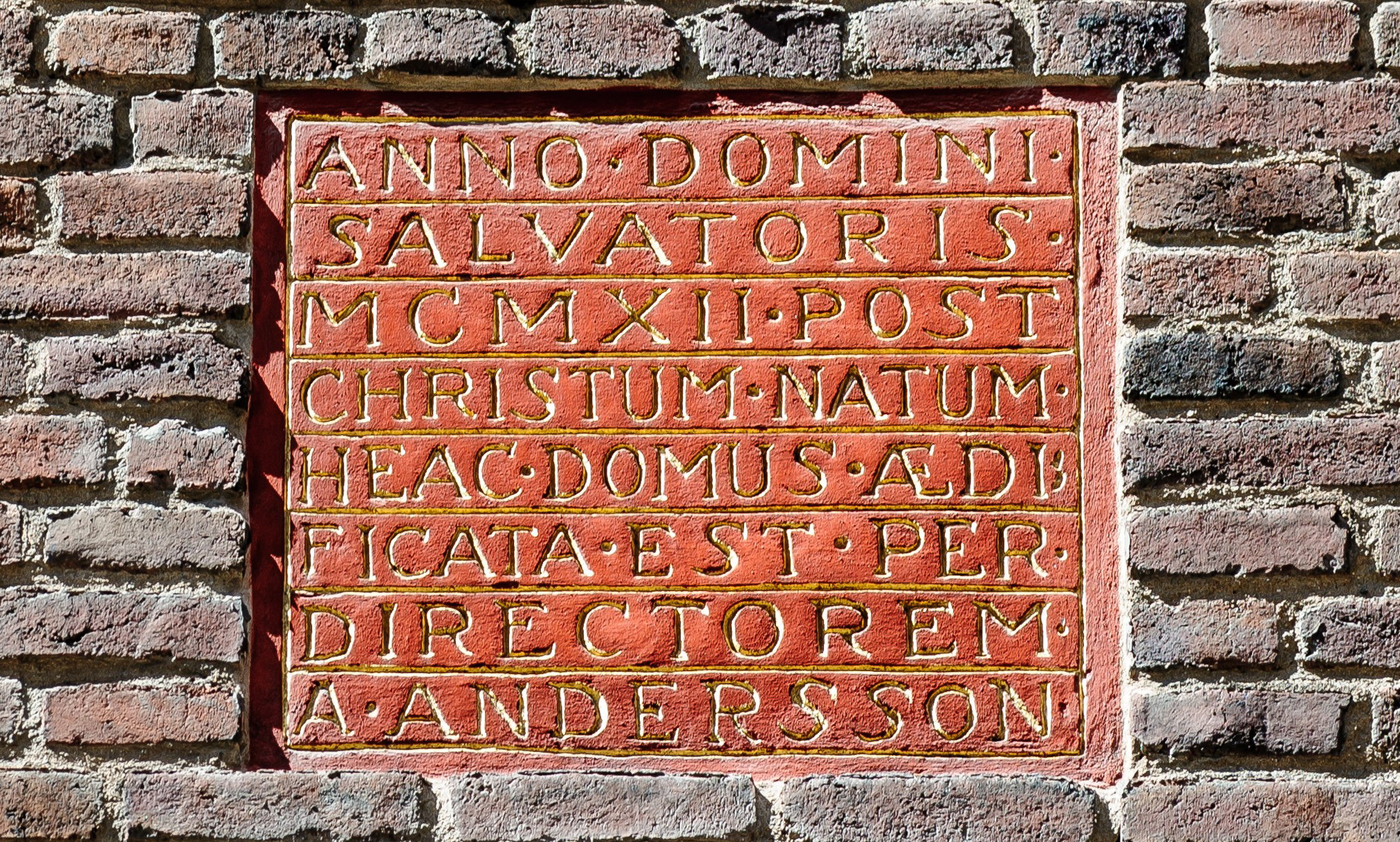 Foundation Stone in the wall.